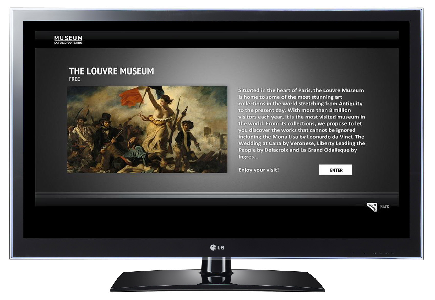 LG Electronics will launch a smart TV application on December 1, 2011 ※ LG전자 뉴스룸 에서 관련 보도자료를 확인실 수 있습니다.